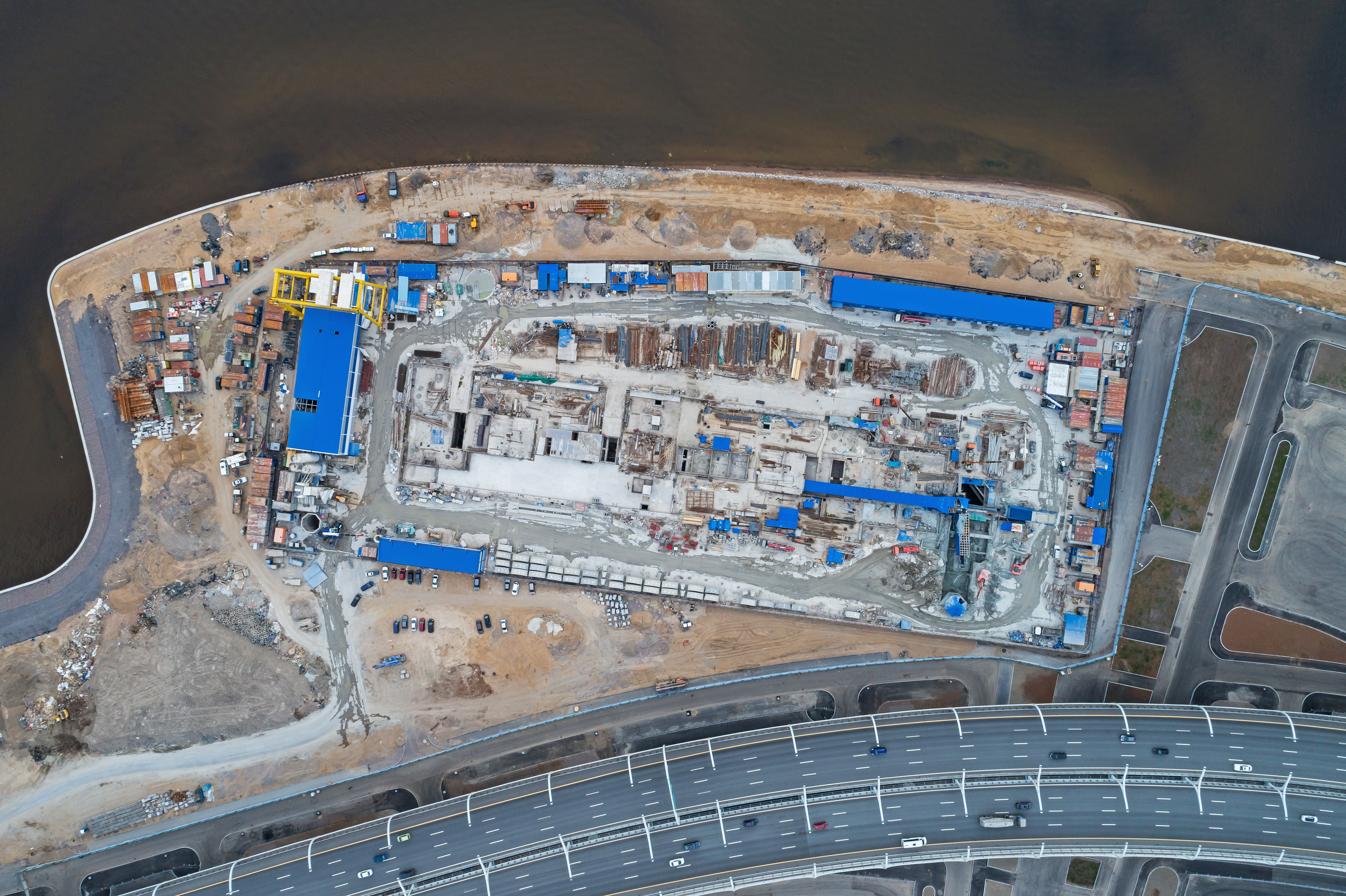 Aerial photo of Novokrestovskaya metro station construction in Saint Petersburg (Russia).